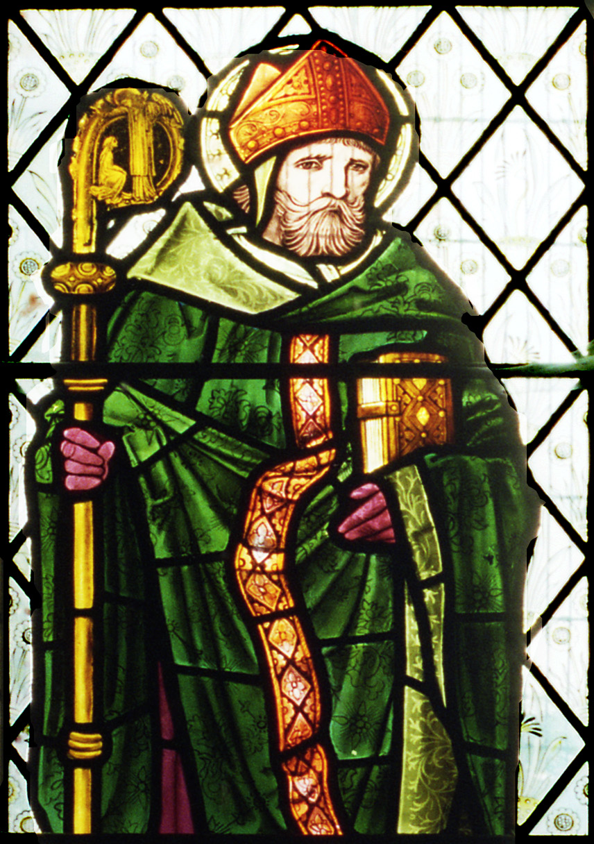 Bishop Robert Grosseteste, detail of a window on the South transept Westernmost. St Paul's Parish Church, Morton, Near Gainsborough.